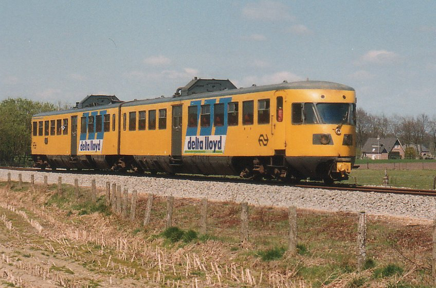 NS DMU 176 near Vorden